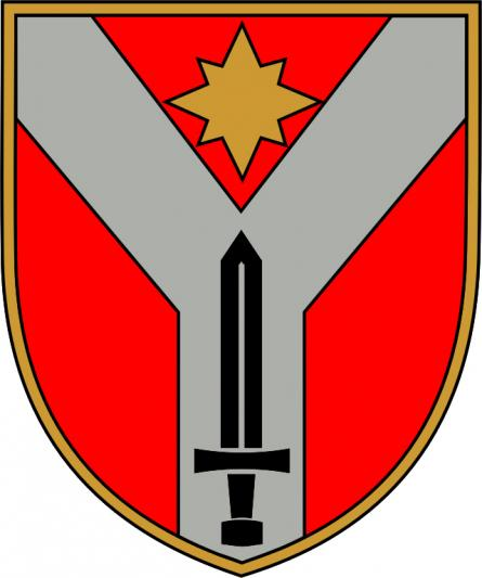 The emblem of North-Eastern Defence District